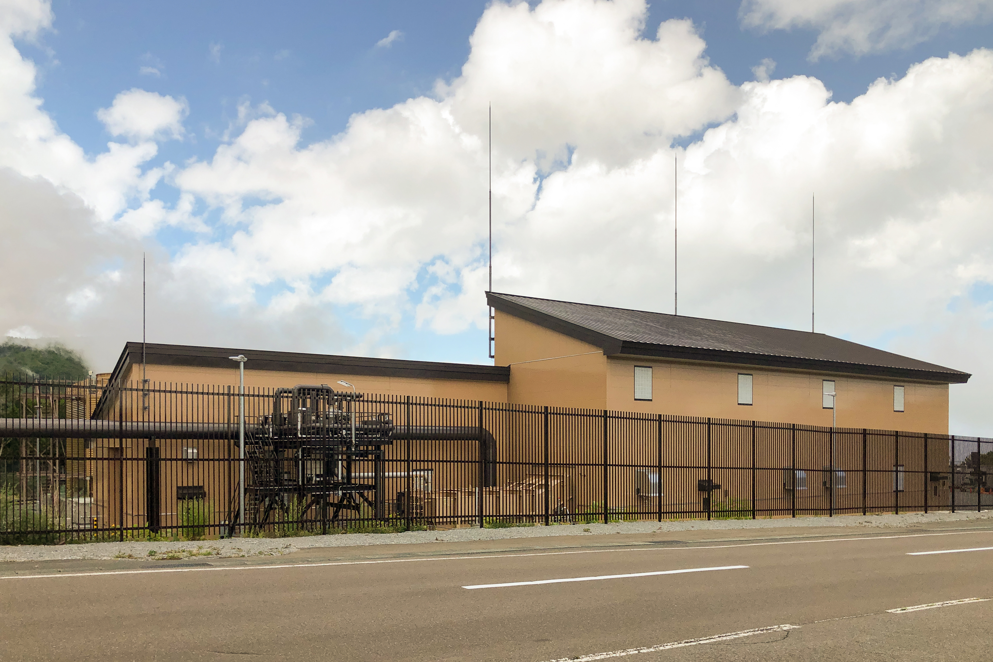 Matsuo-Hachimantai Geothermal Power Plant in Hachimantai City, Iwate Prefecture, Japan